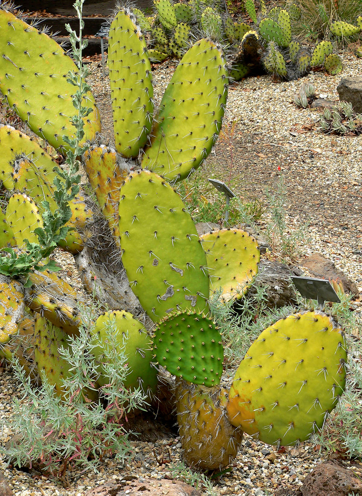 Photo of Opuntia oricola at the Regional Parks Botanic Garden